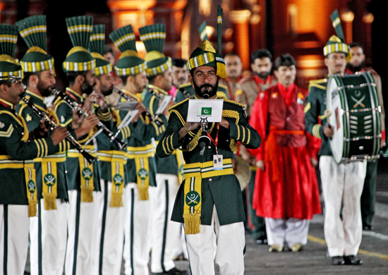 The 5th International military and musical festival "Spasskaya Tower" official opening